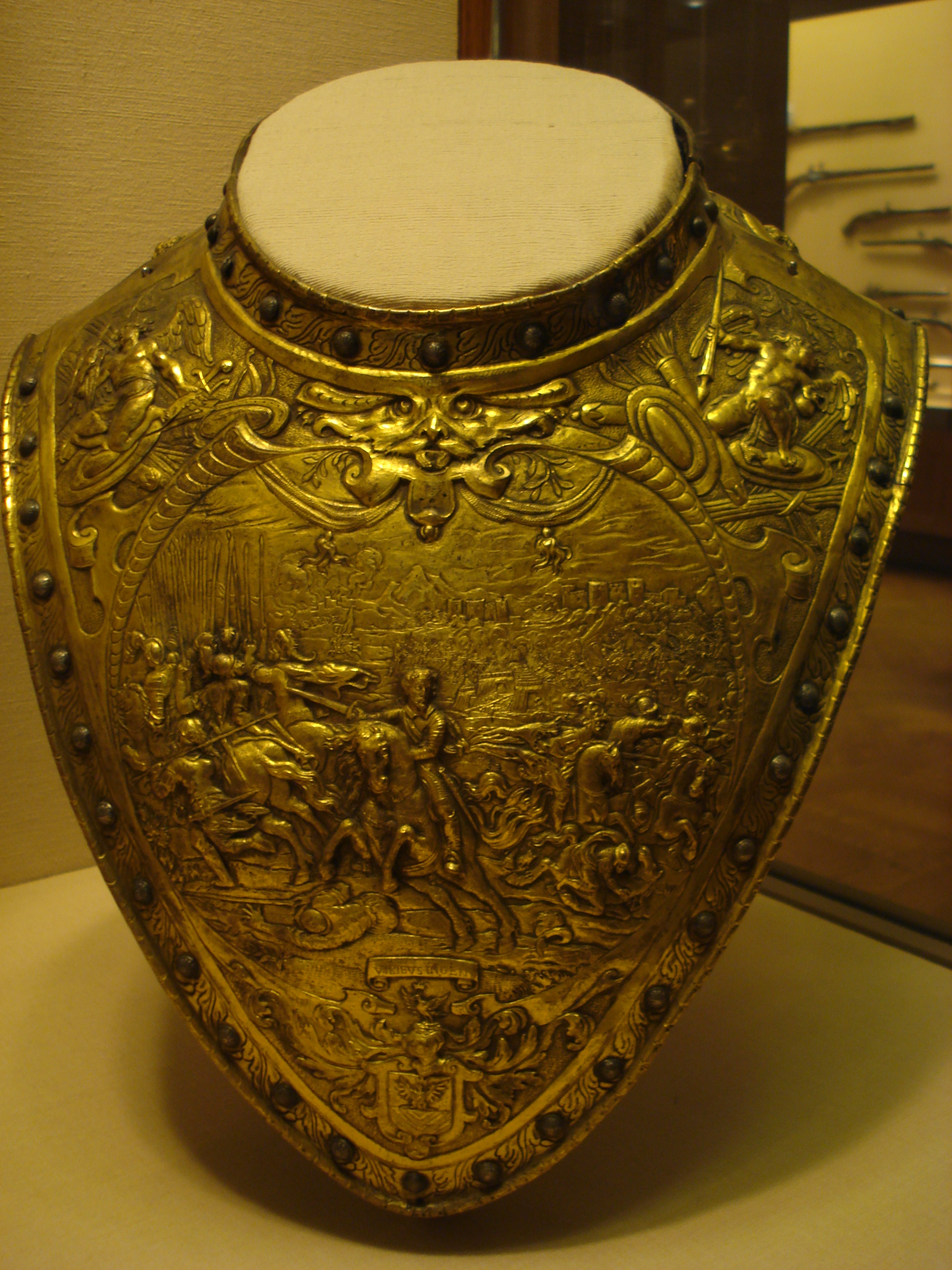 Gilt brass gorget. Most likely Dutch, c. 1630. The scenes of battle are engraved after Italian painter Antonio Temptesta and Baroque printmaker Jacques Callot. In the collection of the Metropolitan Museum of Art.